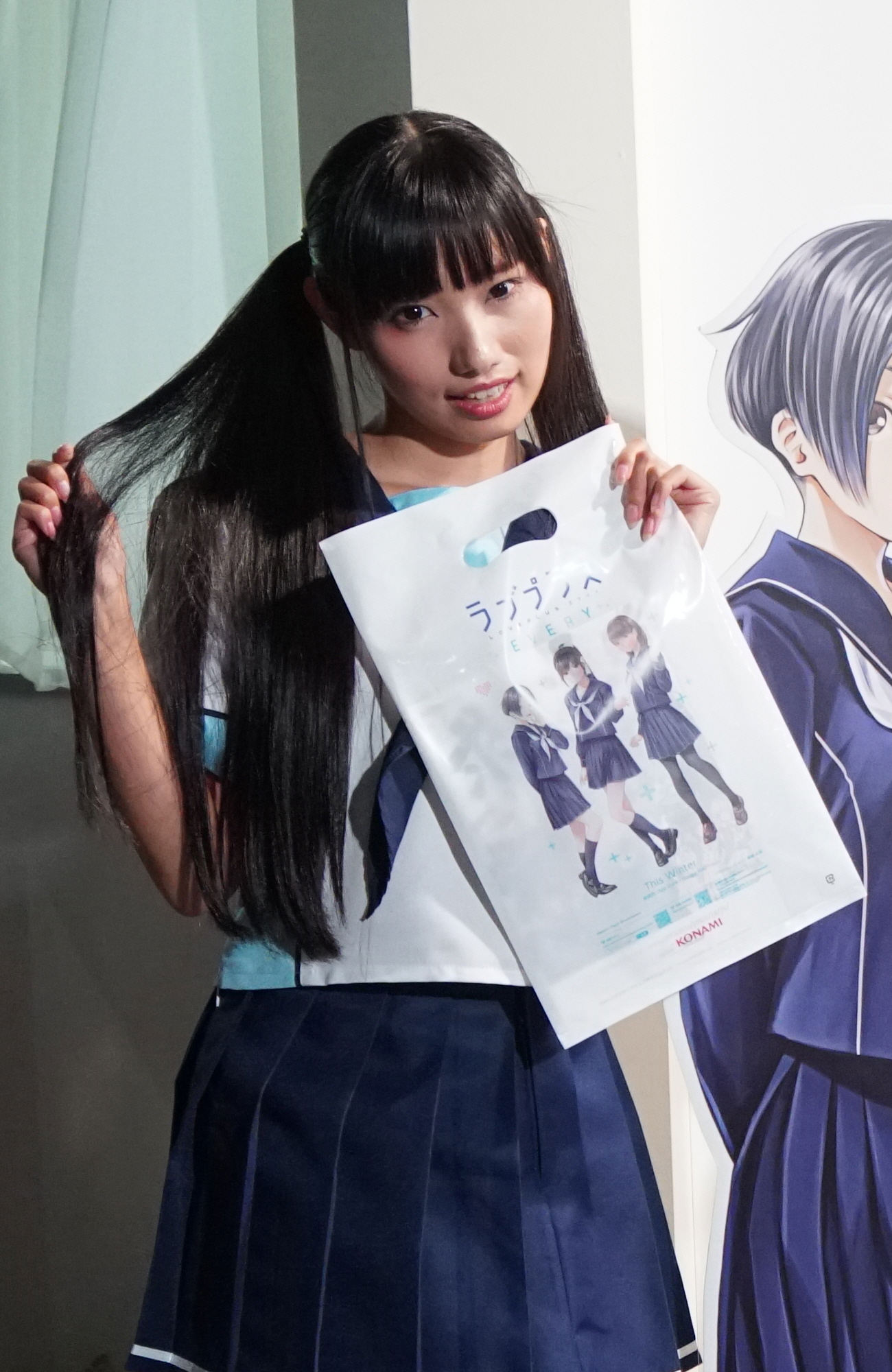 Tokyo Game Show (6)